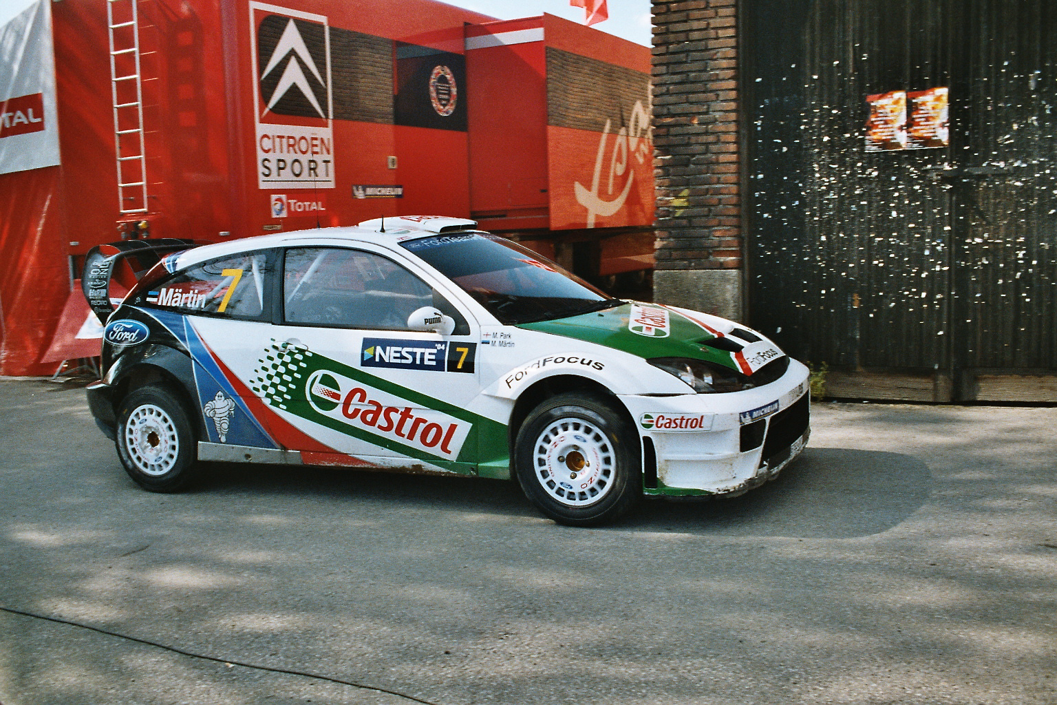 Action from the service park during the 2004 Rally Finland.